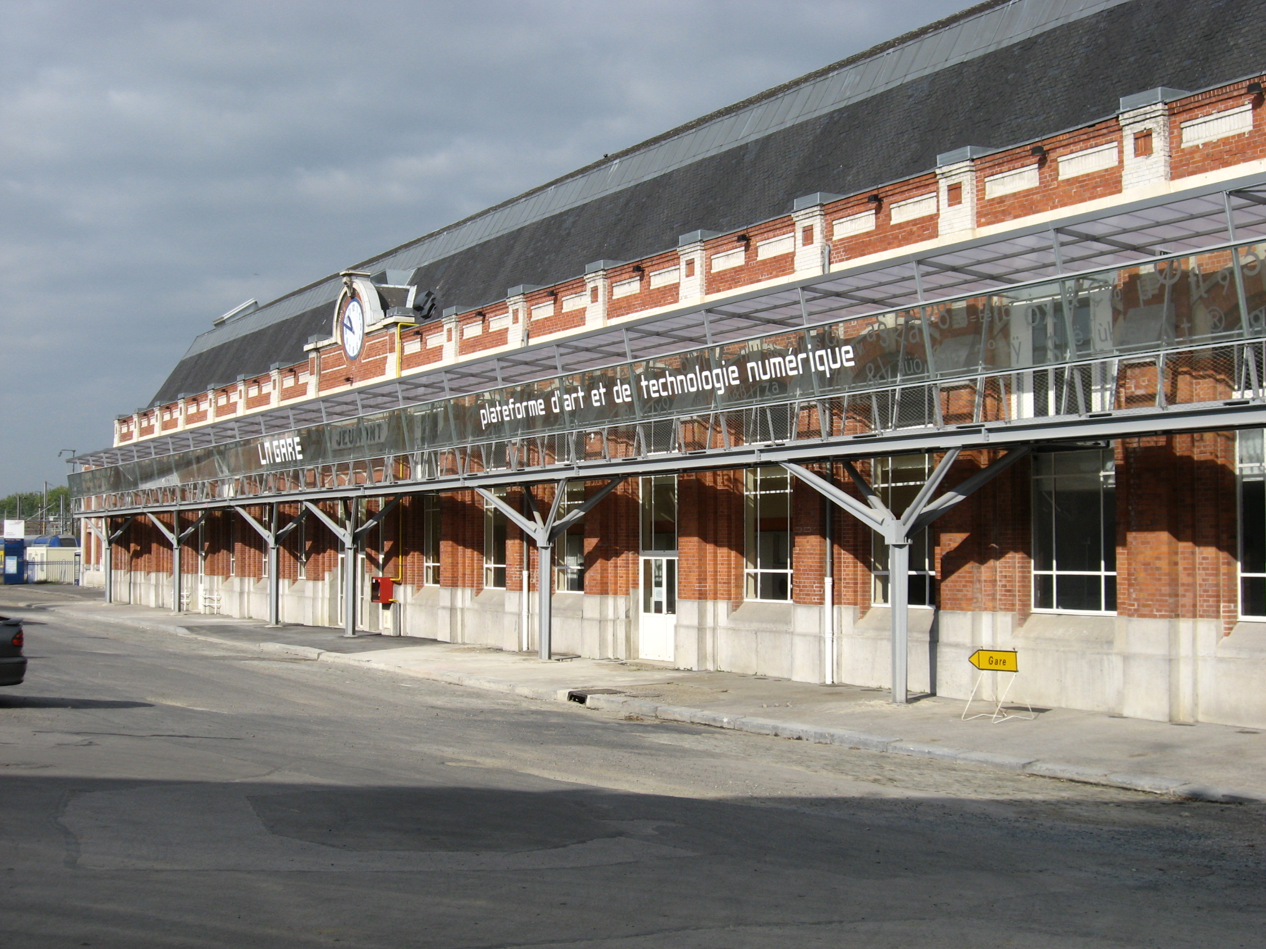 Jeumont station transformed for high technologie purposes. Plateforme d'Art et de Technologie Numérique.